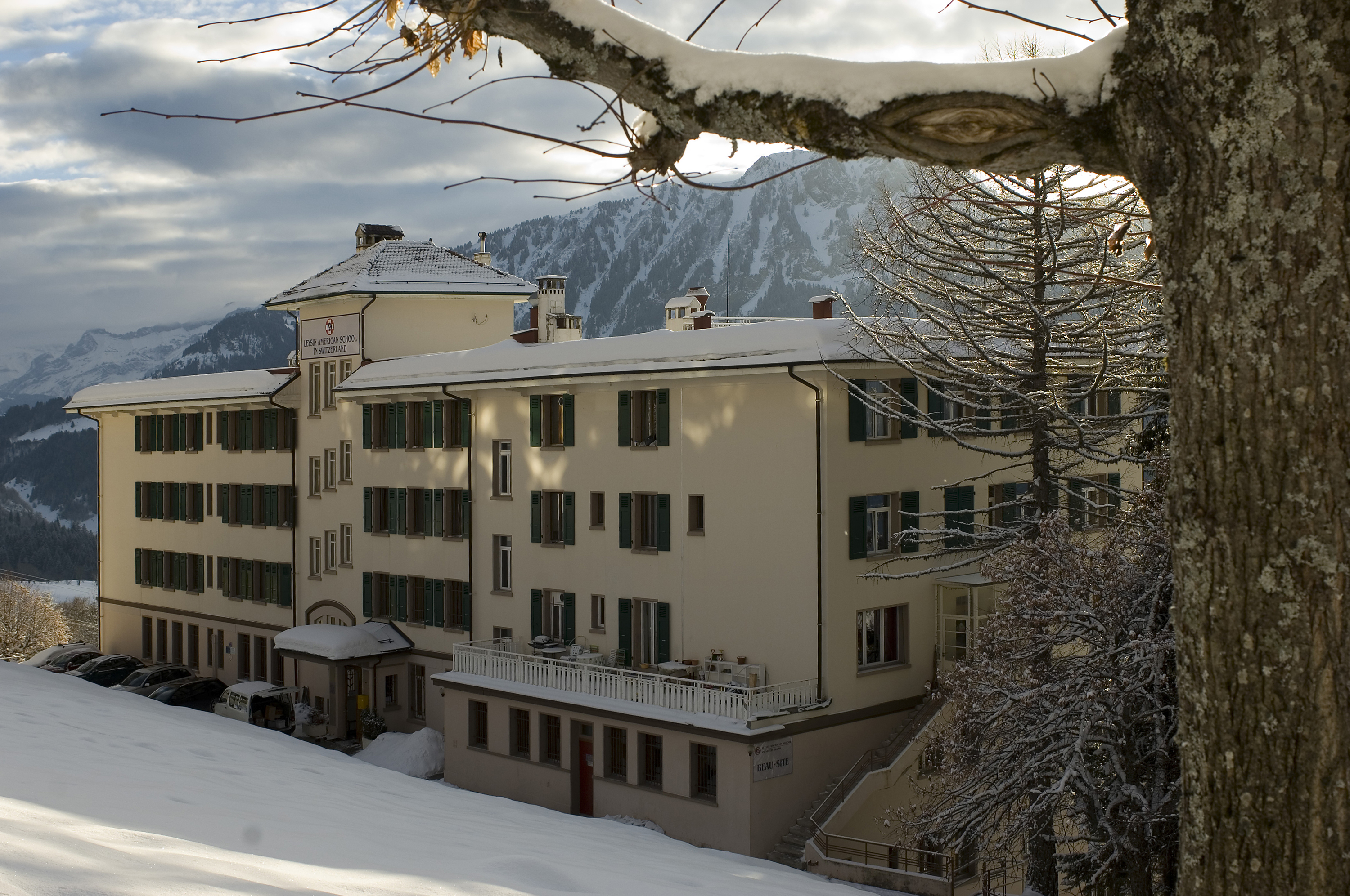 This is the Science wing of LAS Savoy campus: Beau-Site